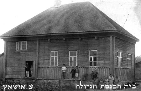 Synagogue in Ušačy